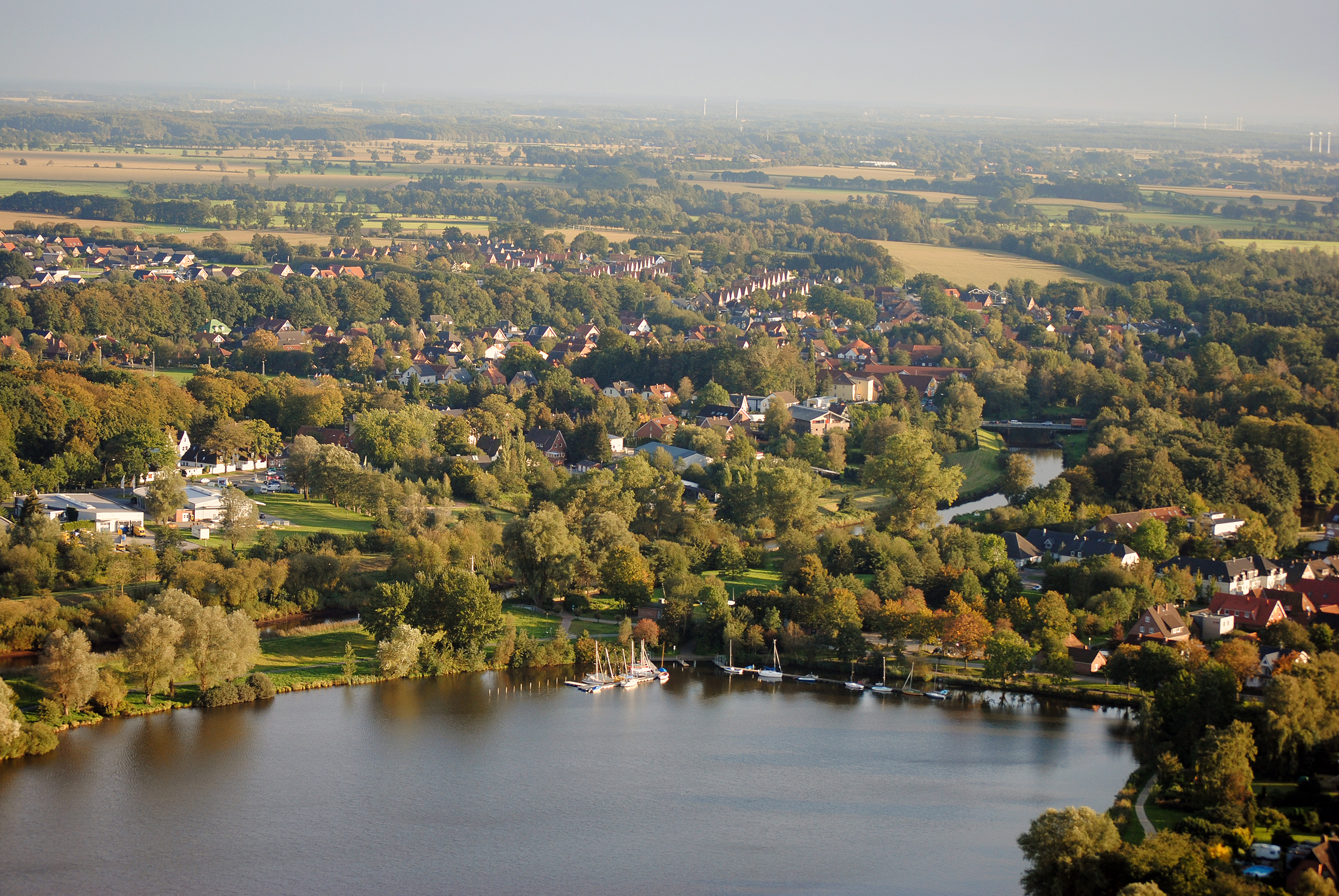 This image shows the Vörder See in Bremervörde and the east city area at sunset.